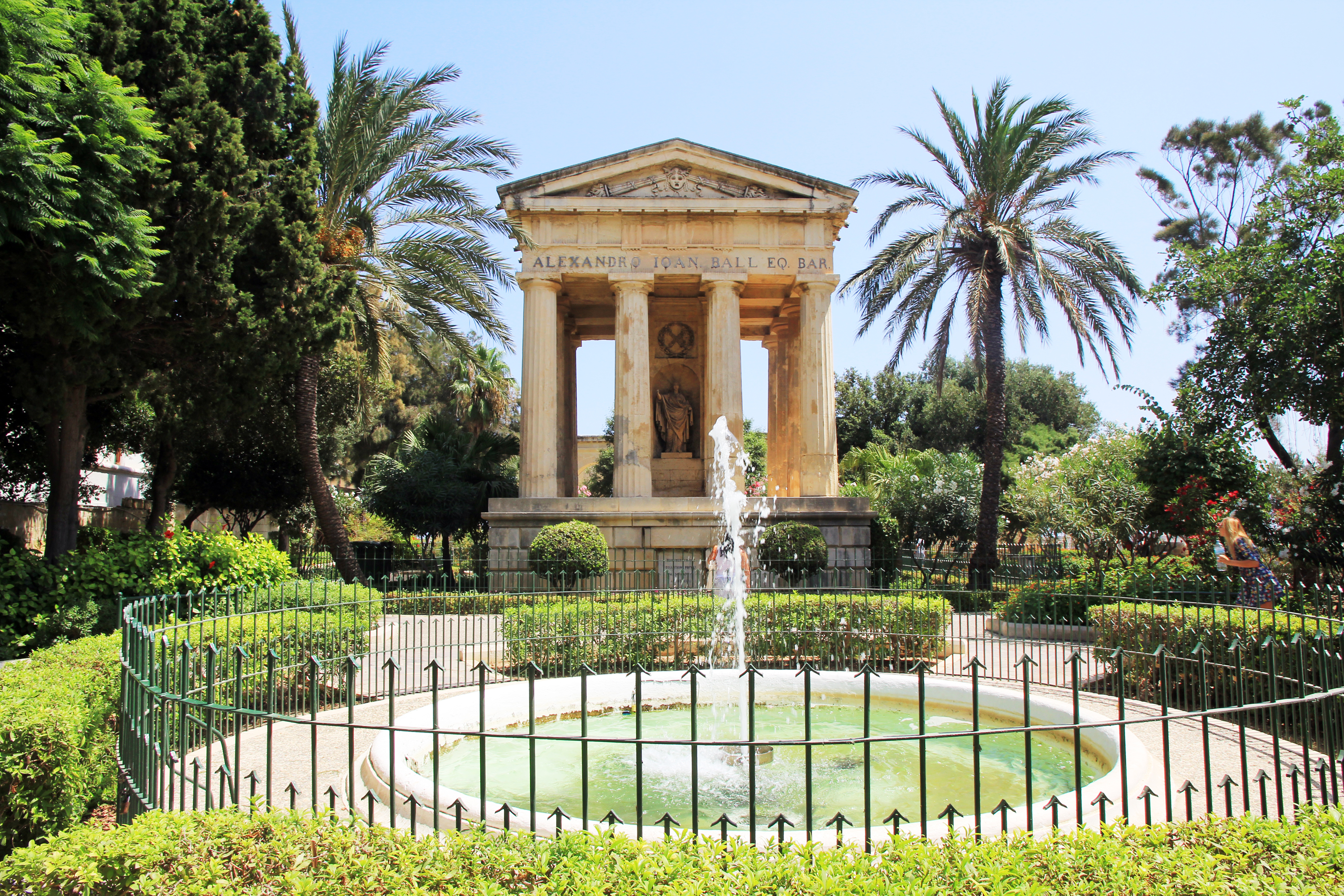 Monument to Alexander Ball in Lower Barrakka Gardens in Valletta, Malta